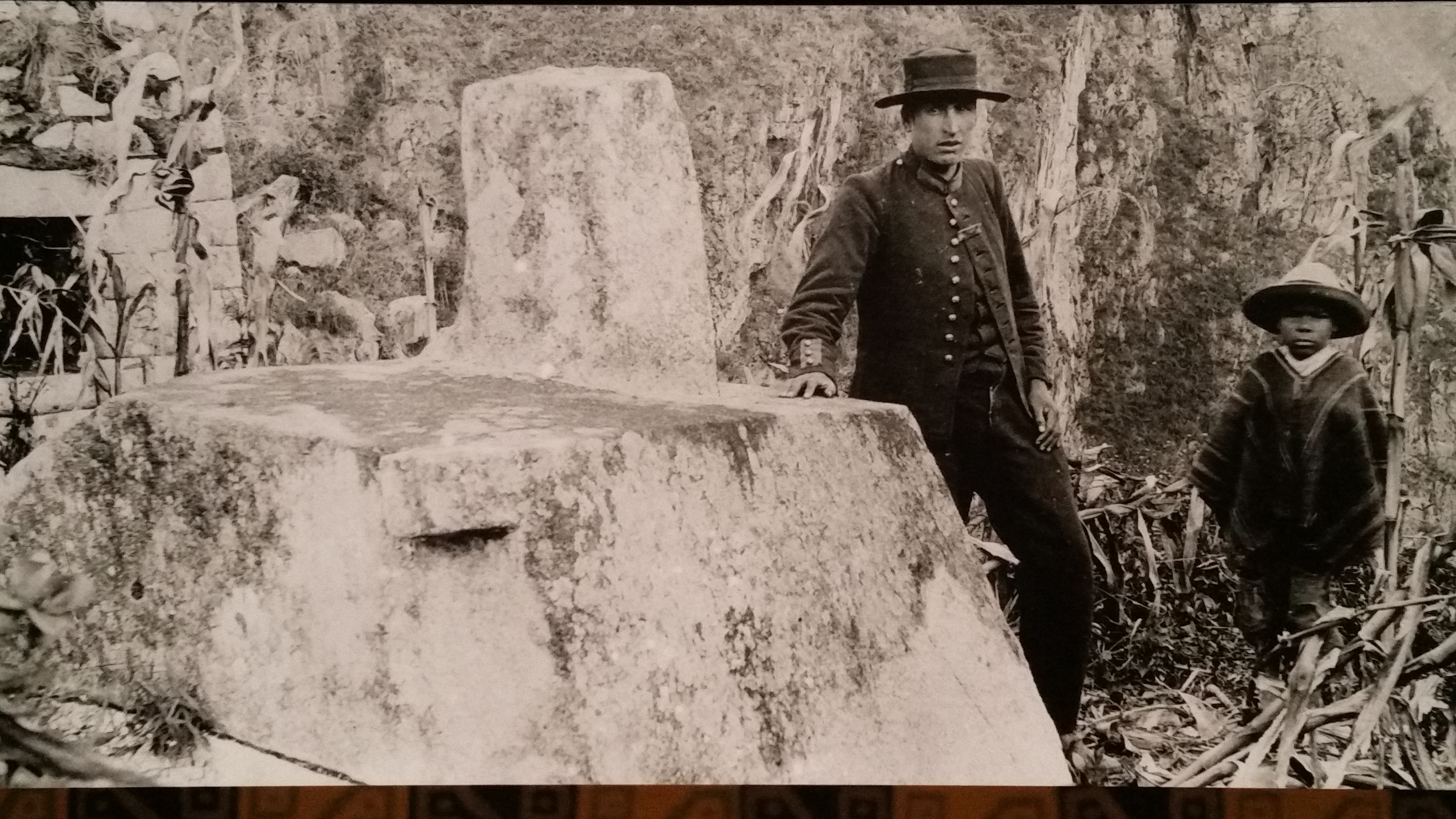 Sergeant Carrasco at Machu Picchu on 24 July 1911